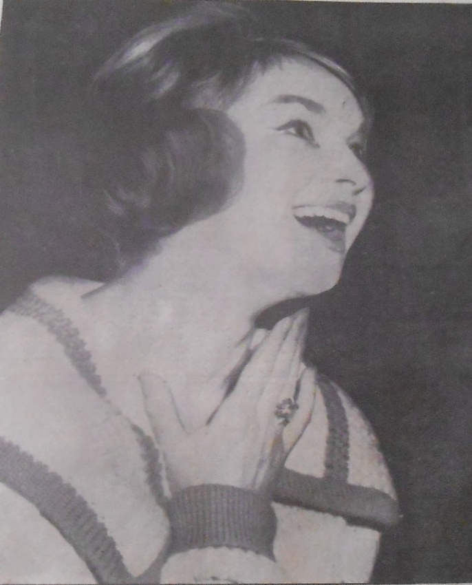 Majda Sepe, Ilustrovana politika